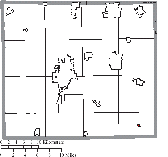 Map of the municipal and township boundaries of Wayne County, Ohio, United States, as of the 2000 census, with the location of the village of Mount Eaton highlighted. Township borders are shown only in unincorporated areas in order to differentiate incorporated and unincorporated areas more clearly.